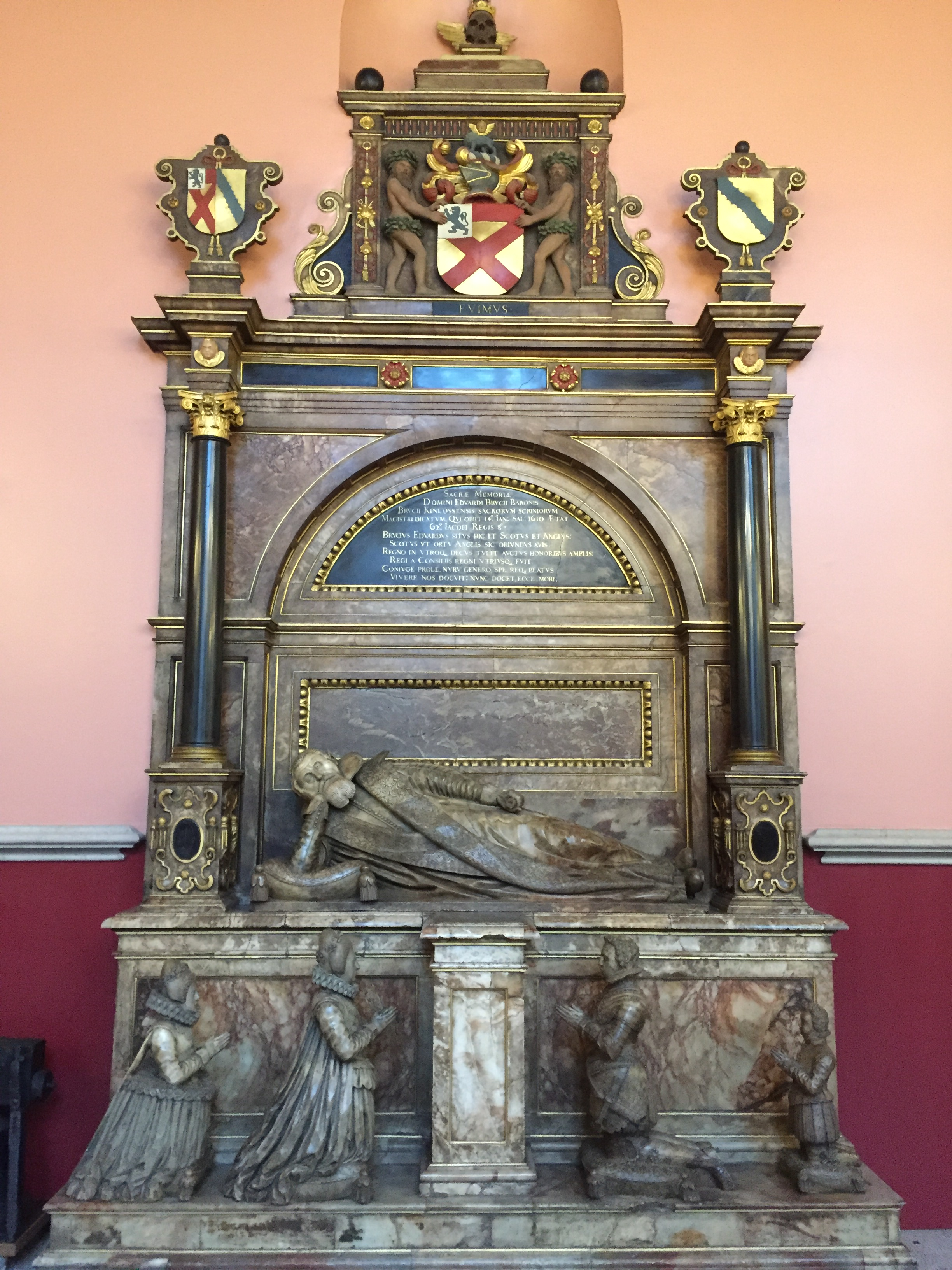 Kinloss Effigy